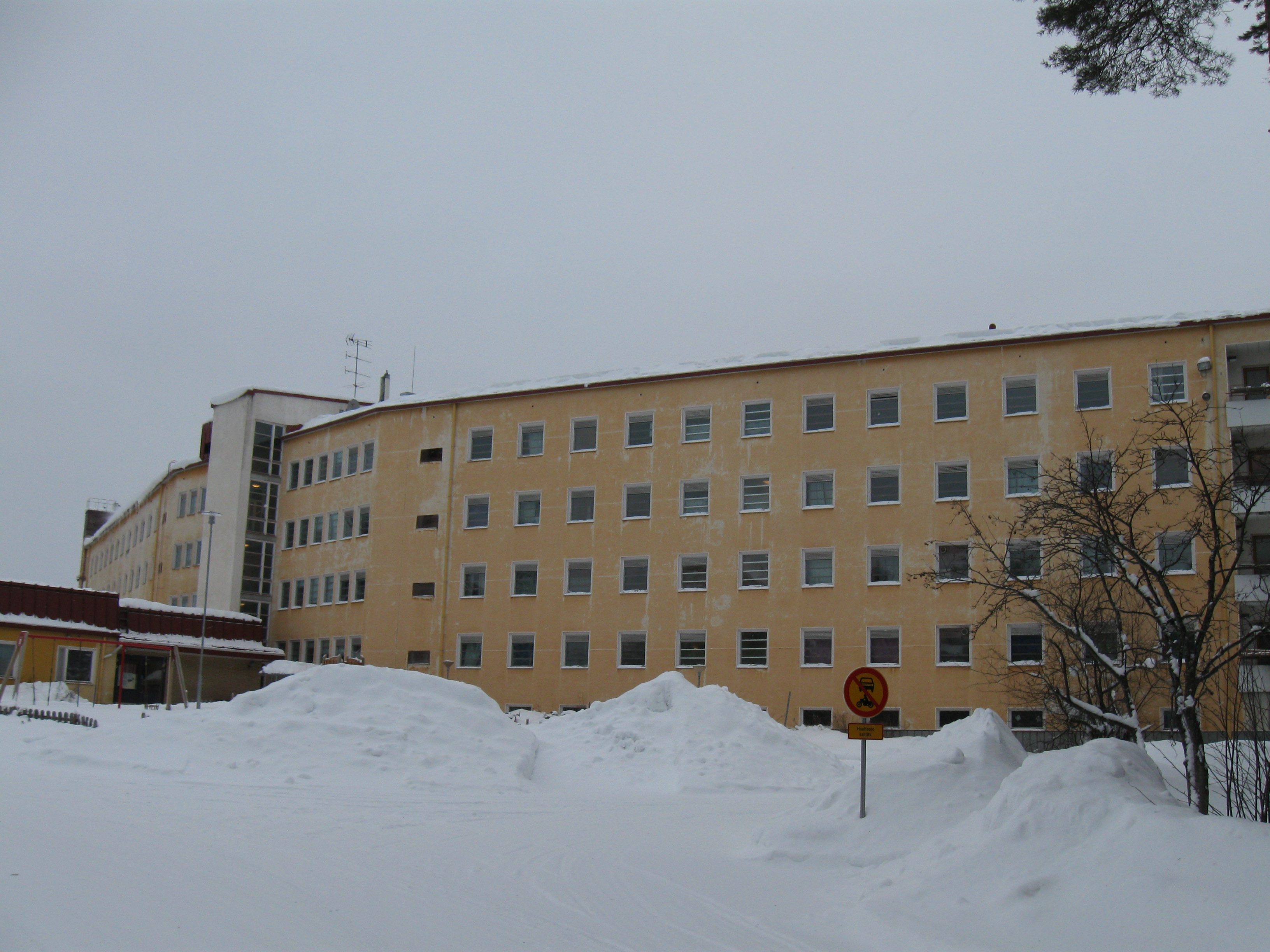 The refugee reception centre Heikinharju in Oulu, Finland.